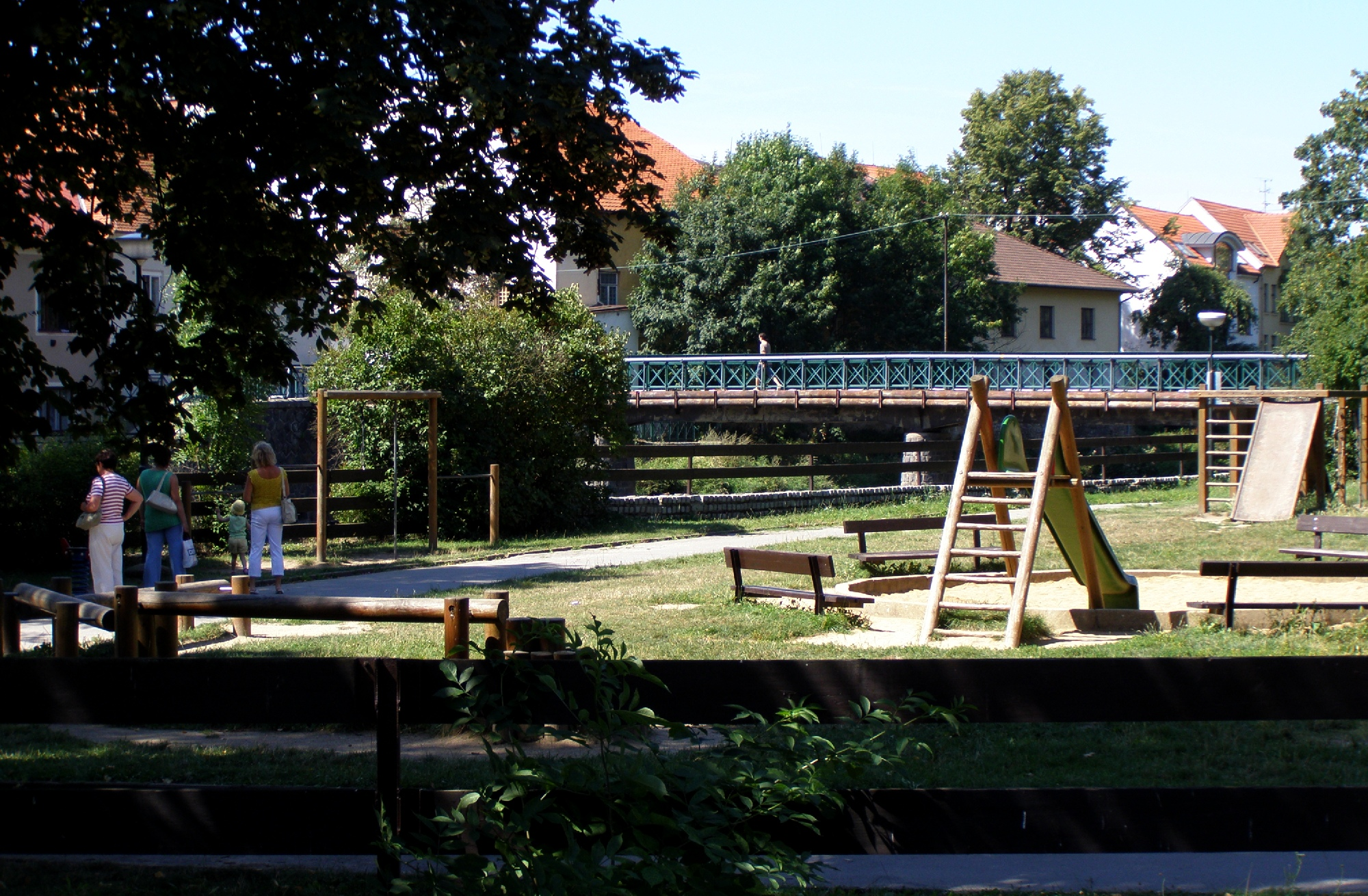 Třebíč. Nové Dvory town district. Hassek garden